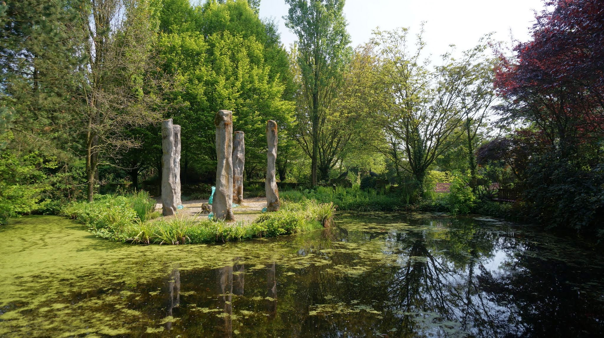 7384 Wilp, Netherlands